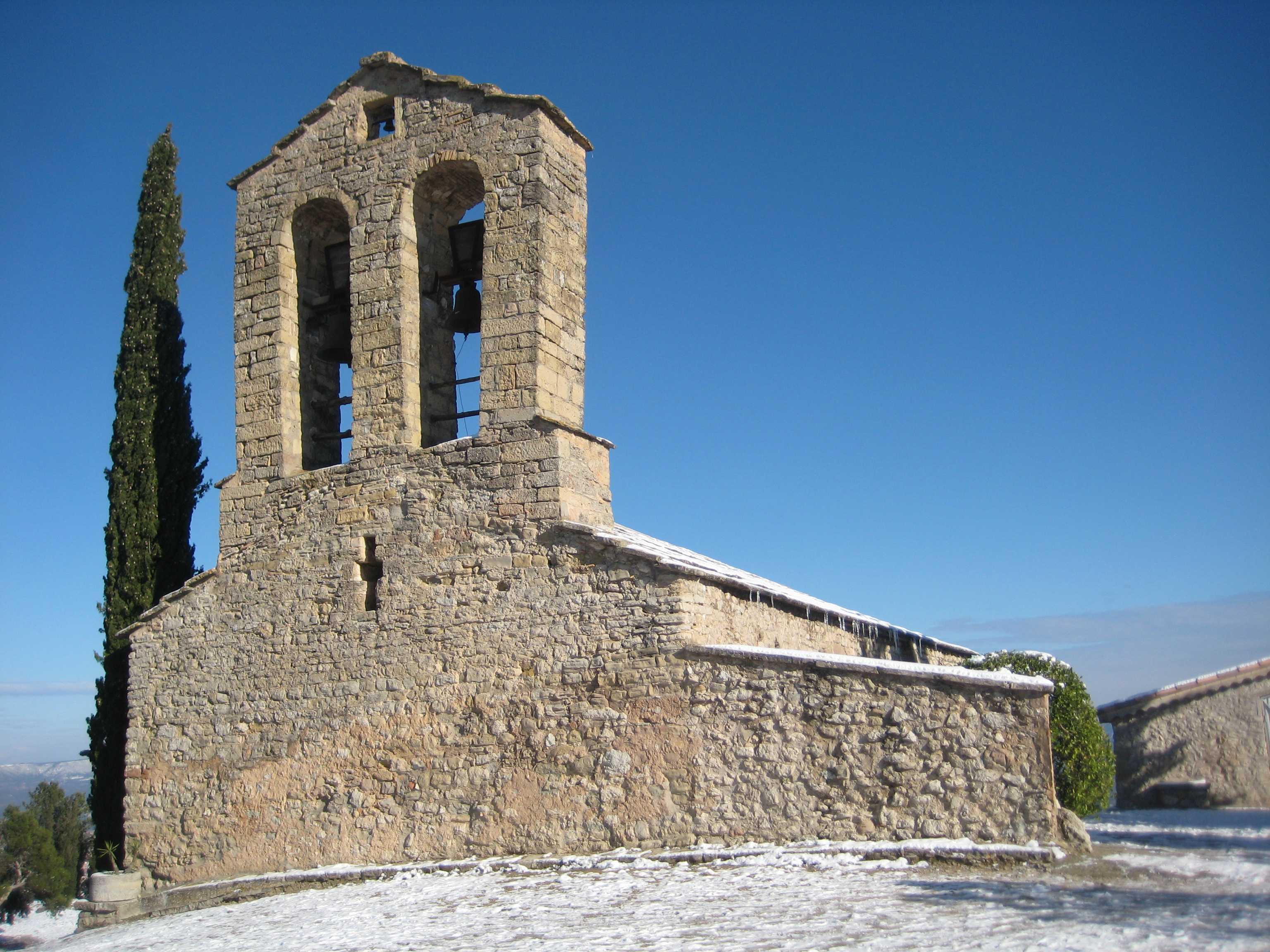 Santa Maria de La Tossa church (Santa Margarida de Montbui).X-XIth centuries.